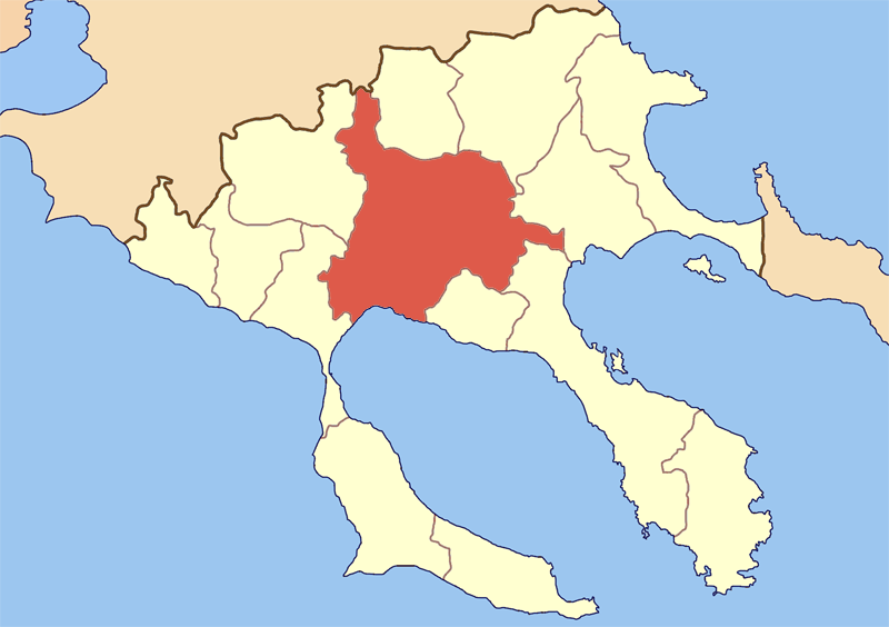 Location of Polygyros.